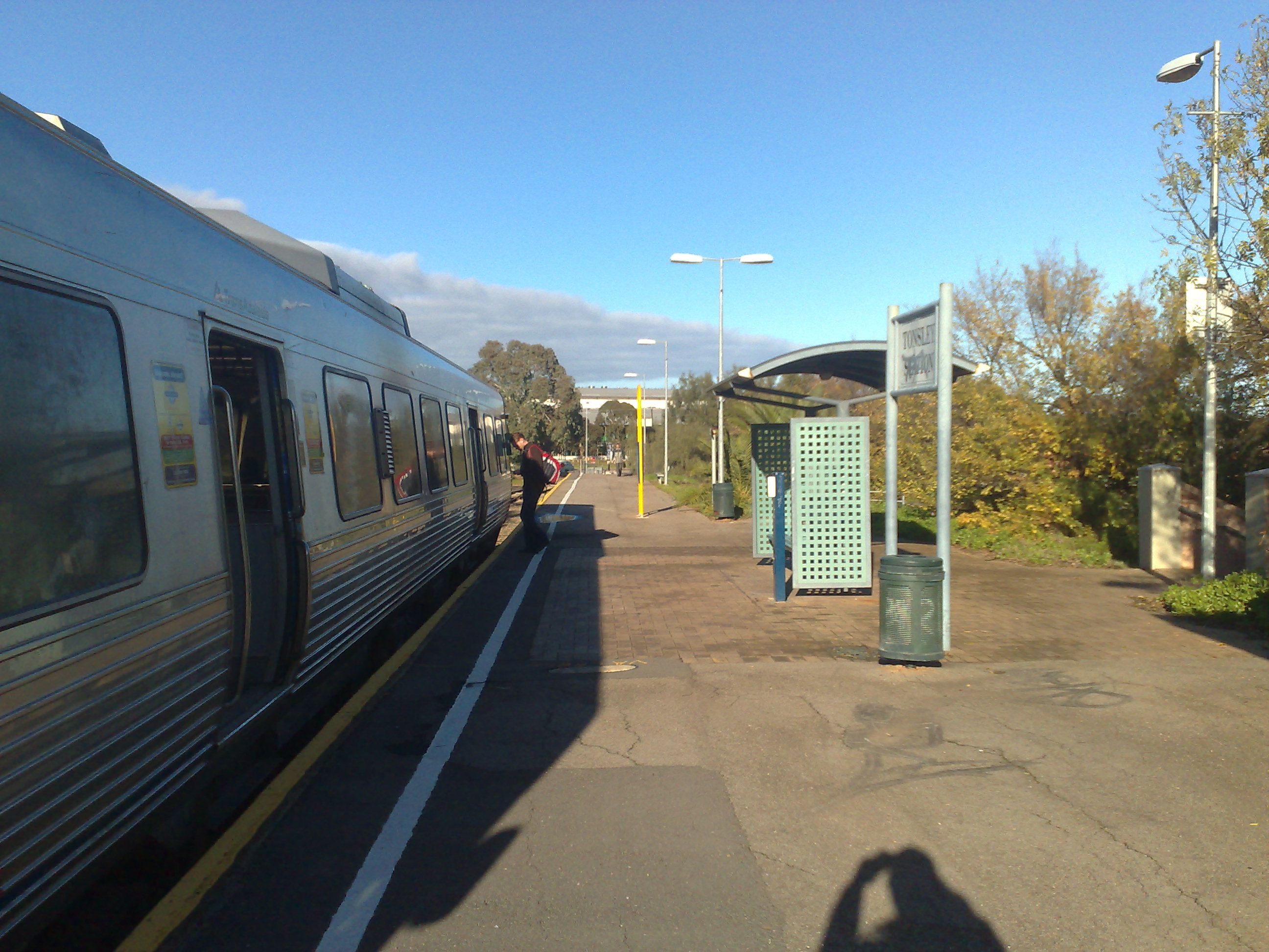 Tonsley railway station, Adelaide circa 2007.